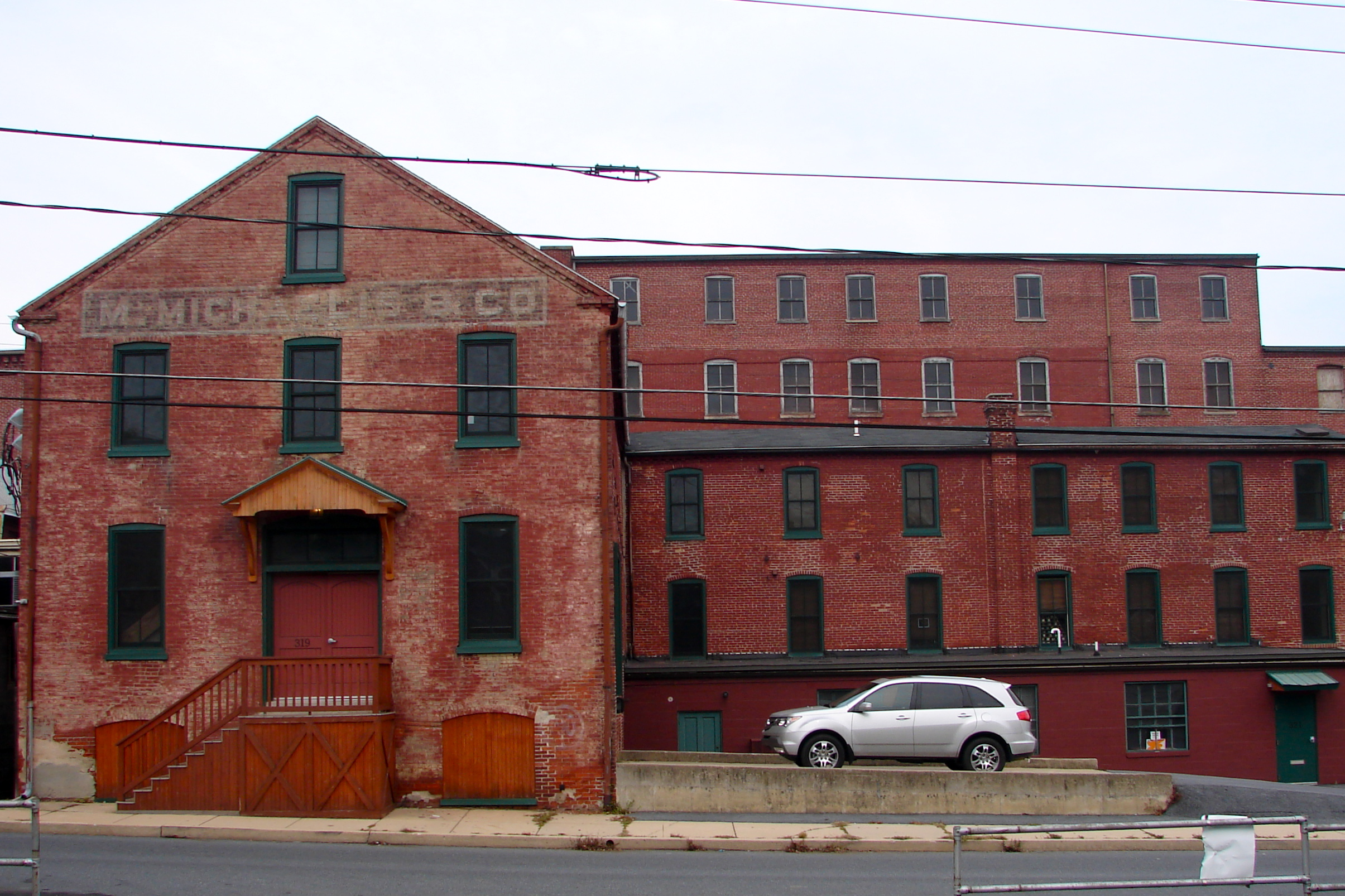 Warehouse in North Shippen-Tobacco Avenue Historic District on the NRHP since September 21, 1990 . The HD is roughly bounded by North Shippen Street, Tobacco Avenue, and East Fulton Street. This particular warehouse is on the north side of Tobacco Ave, about a half block east of Shippen. In the Musser Park neighborhood of Lancaster, Pennsylvania.